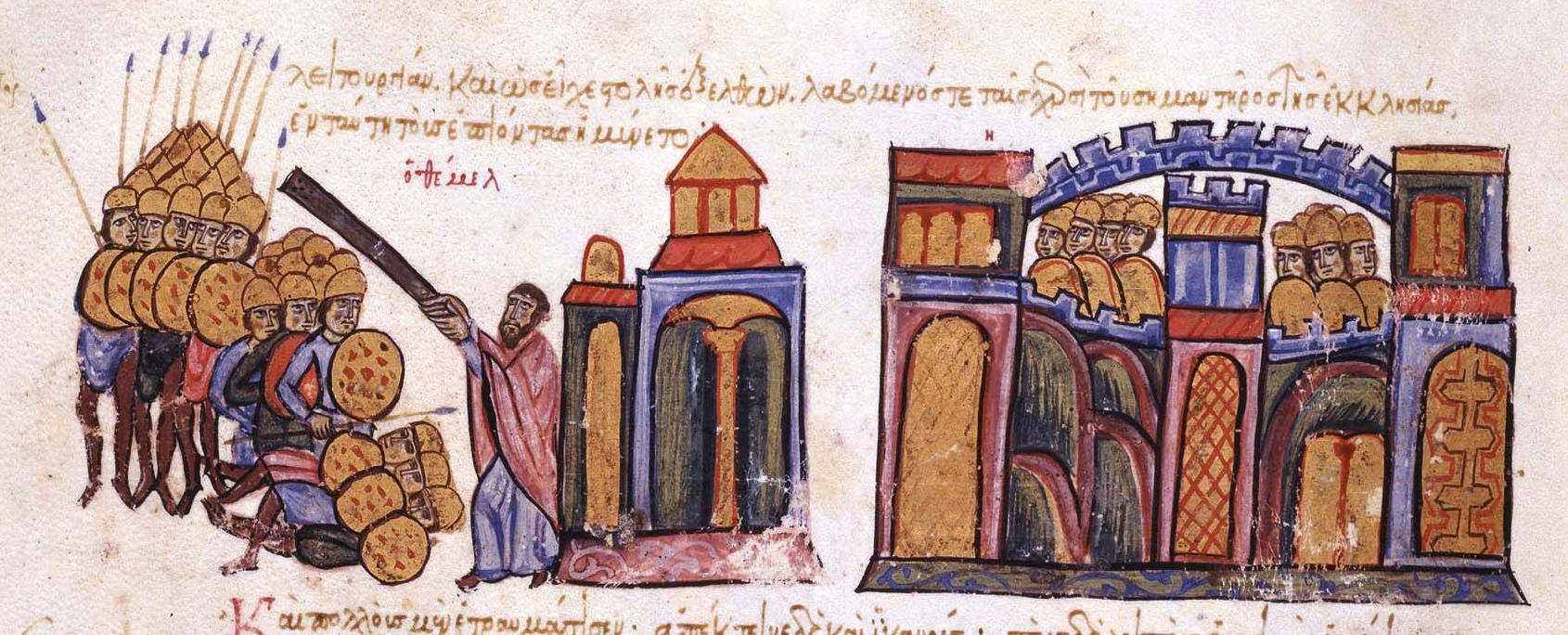 The priest Themel puts the Arabs of Tarsus to flight using his semantron